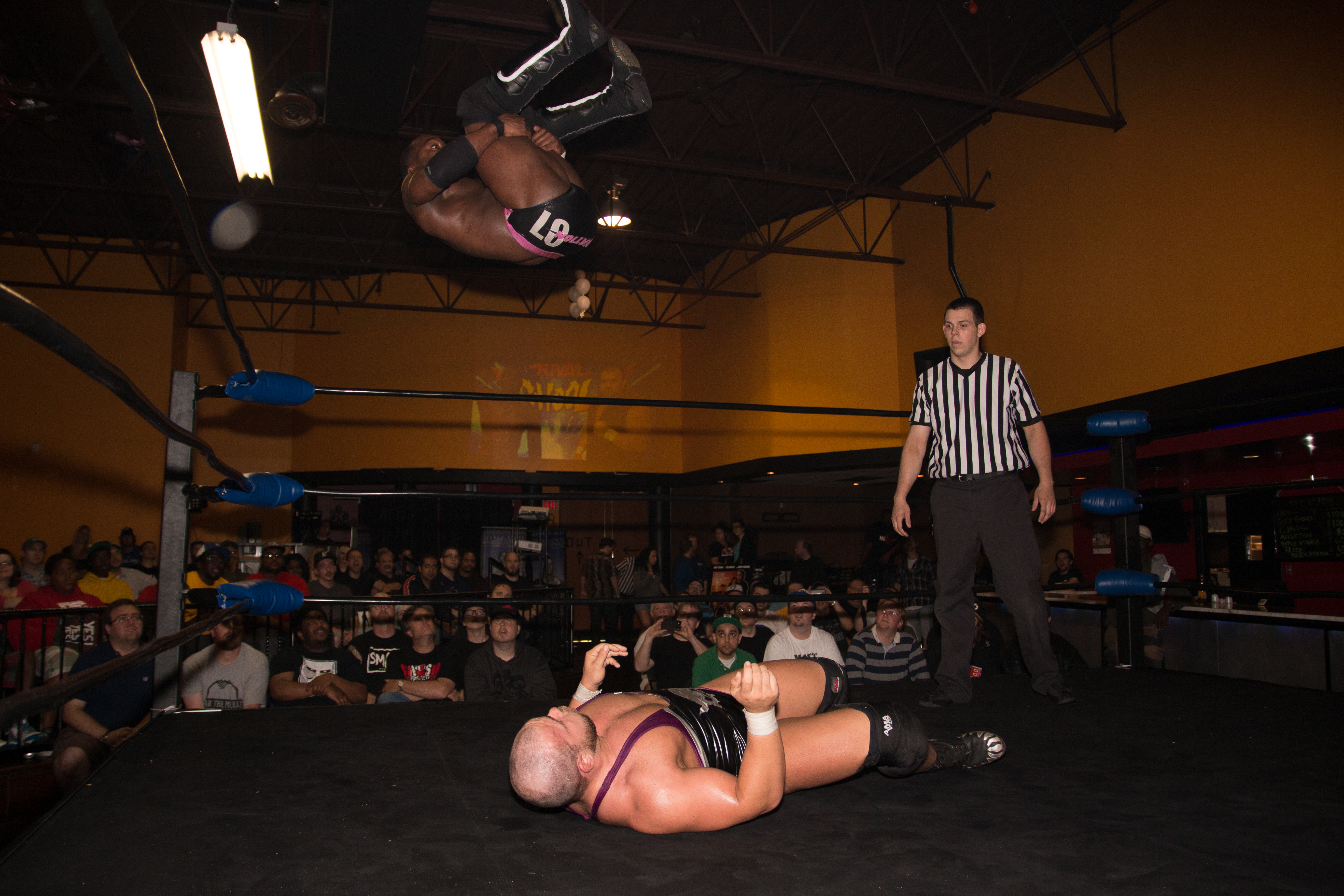 Independent wrestler ACH executing a 450 splash onto Michael Elgin at a Smash Wrestling show in Etobicoke, ON